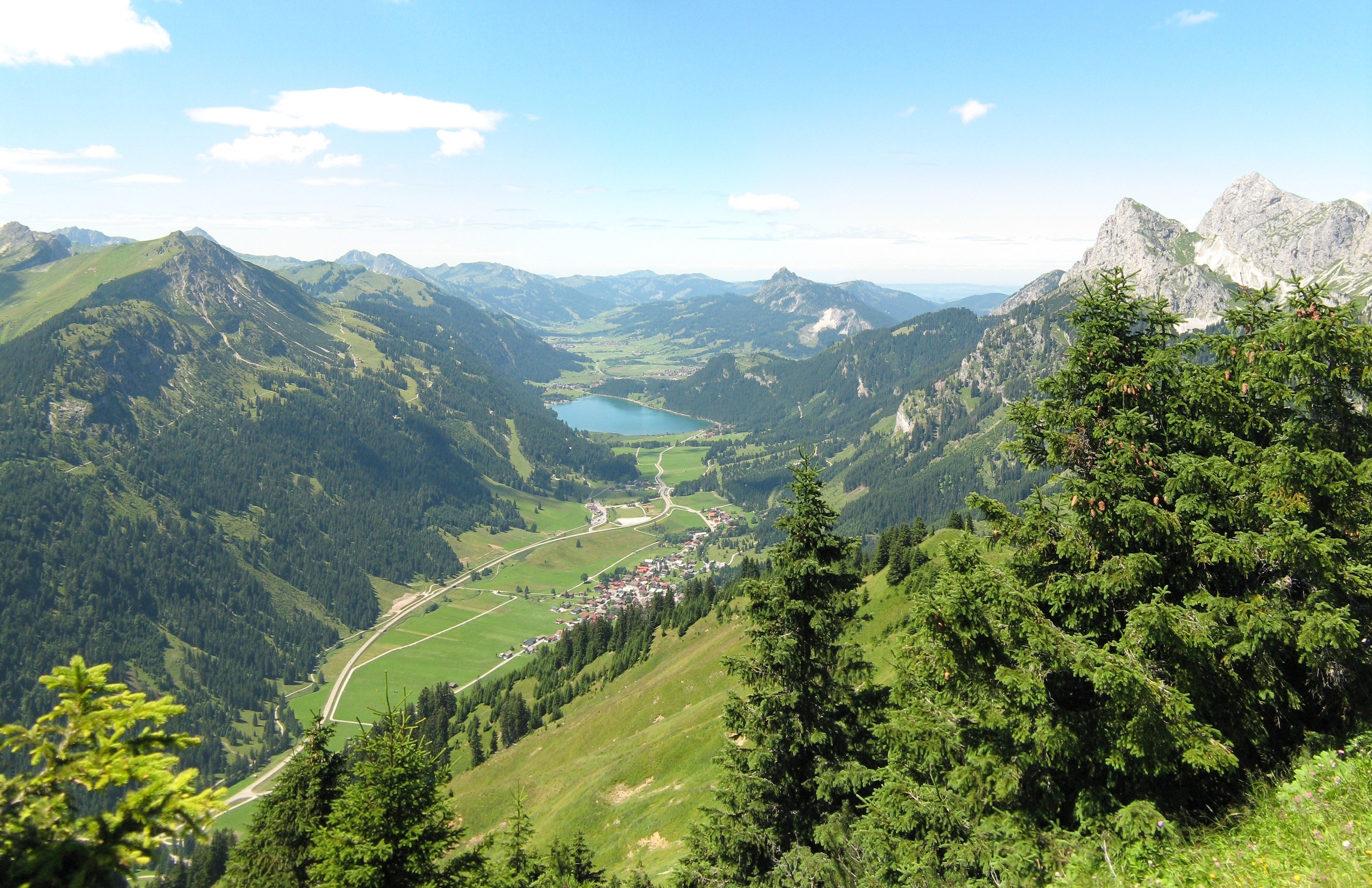 View from the Hahnenkamm into Tannheimer Tal.